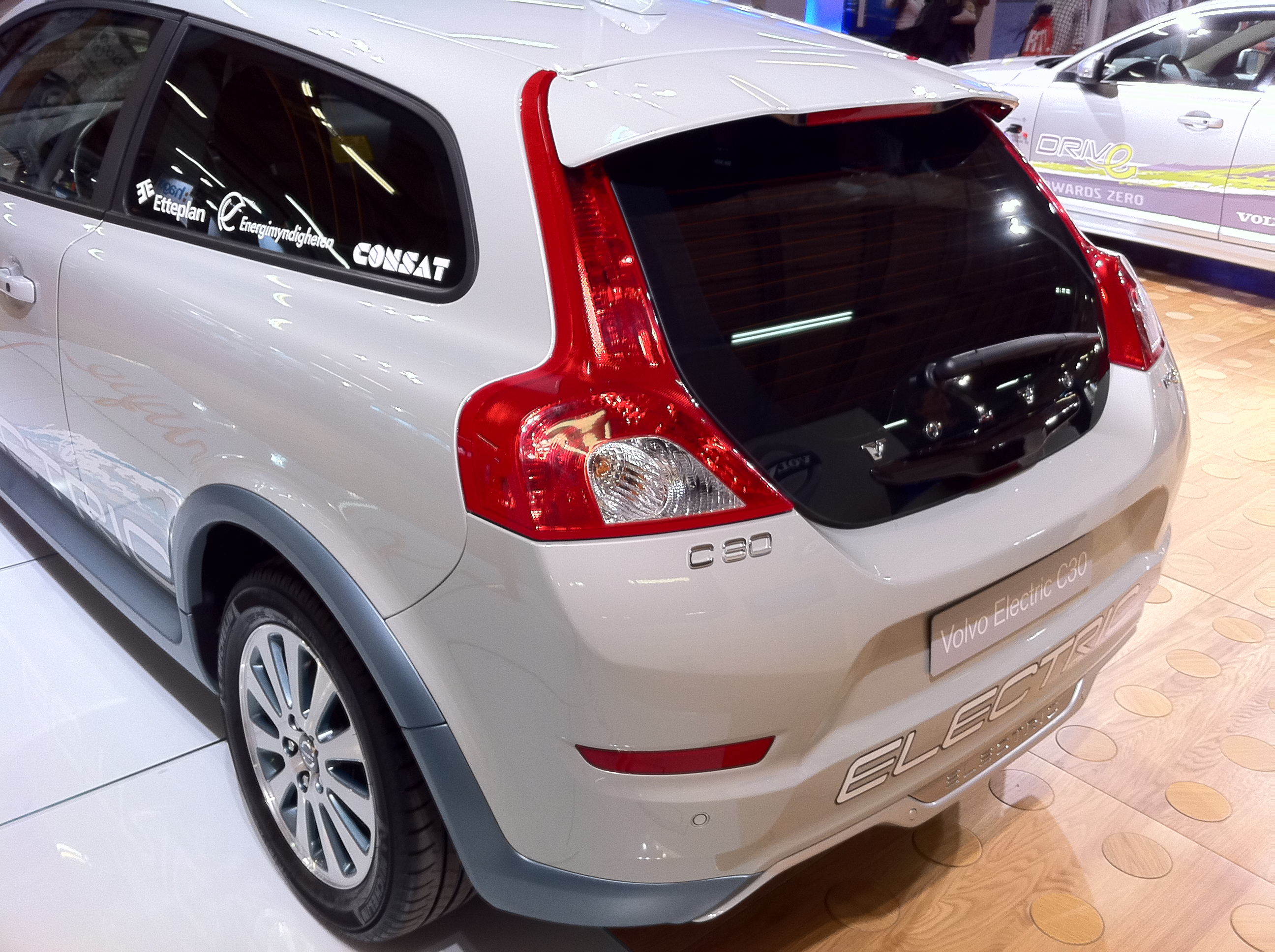 Volvo C30 DRIVe electric concept car exhibited at the 2010 Paris Motor Show